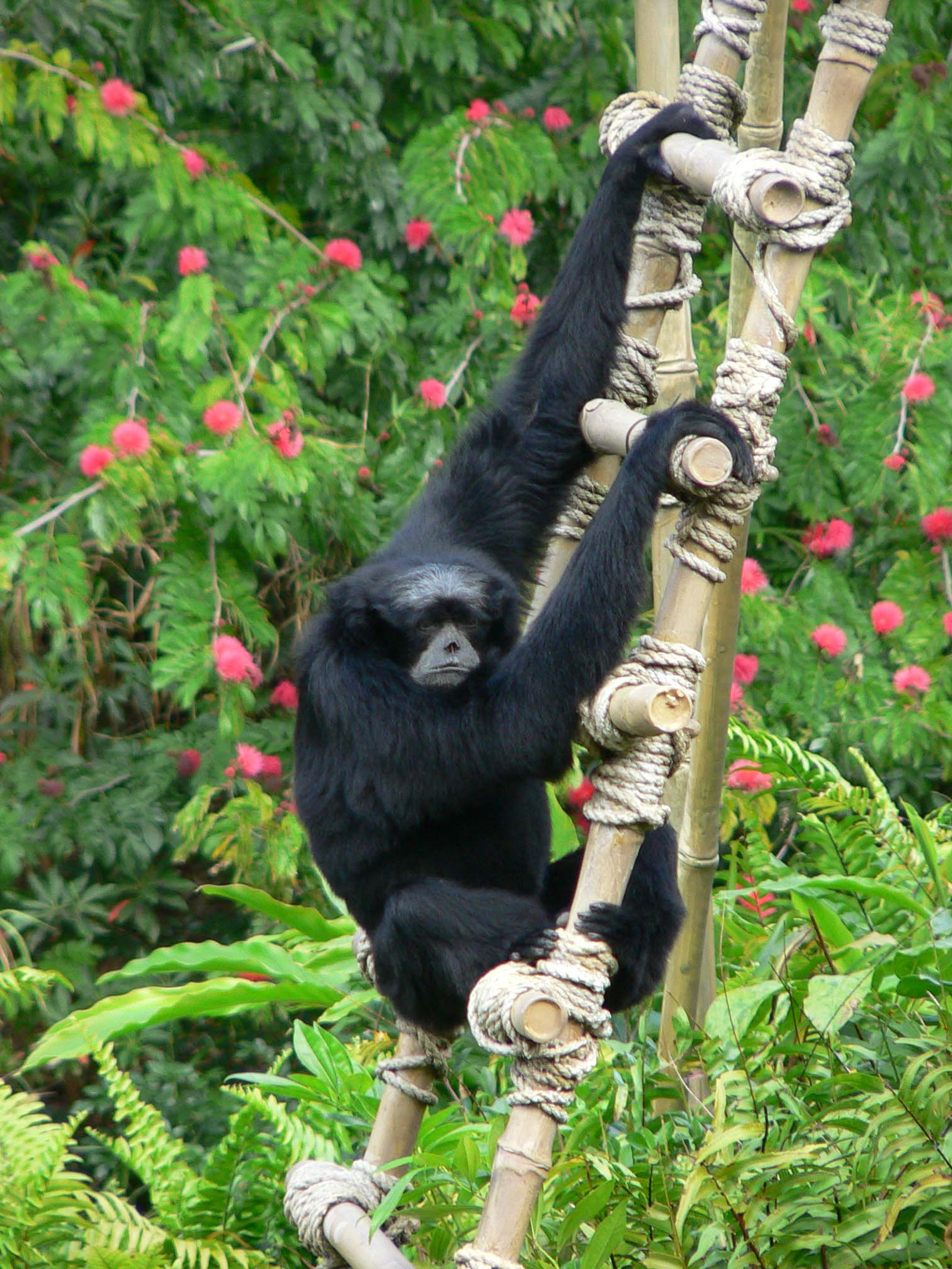 Siamang at Disney's Animal Kingdom.